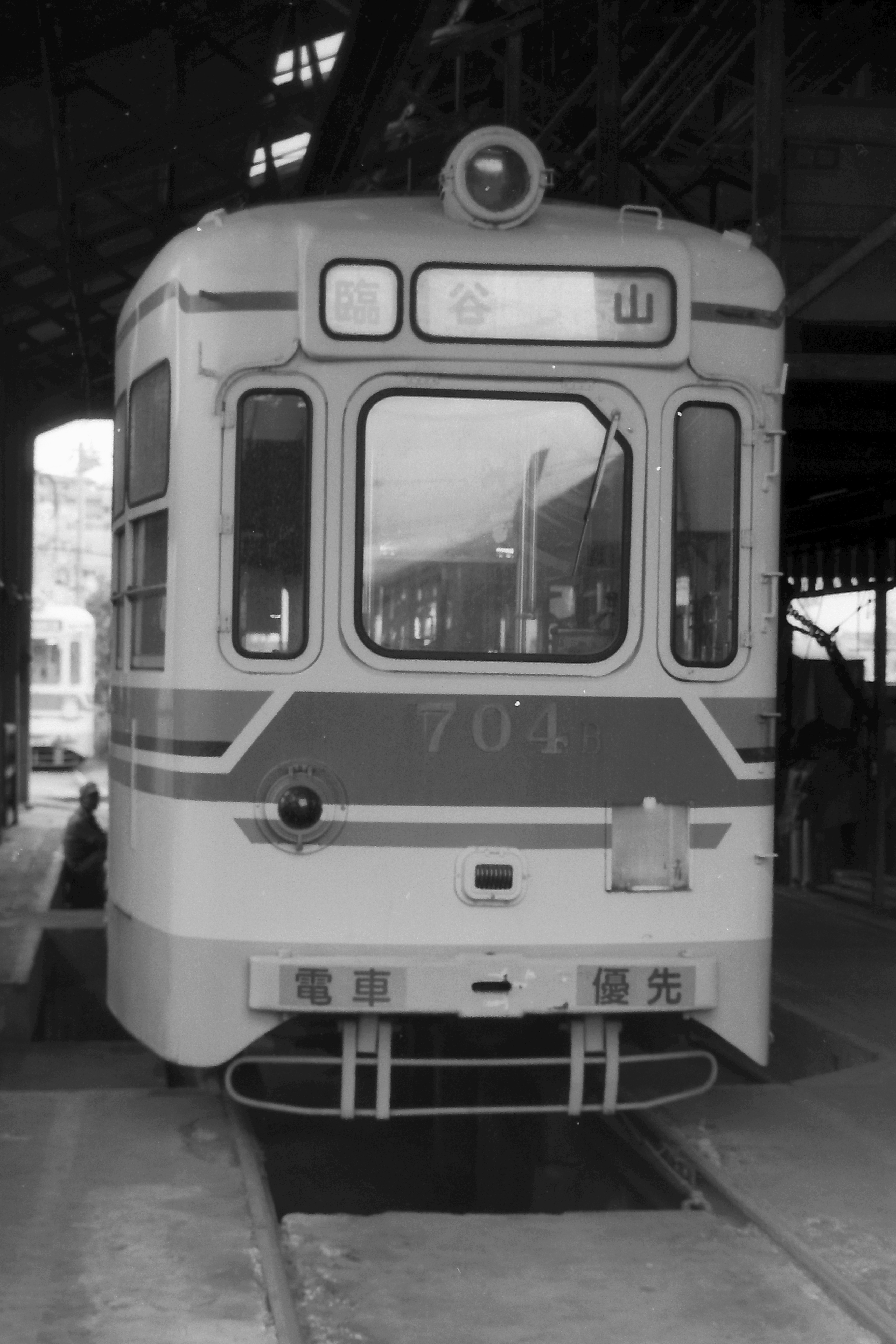 Kagoshima street cart 508 at Kotsukyoku Mae (in front of the depot). Taken under the permission of the officer.